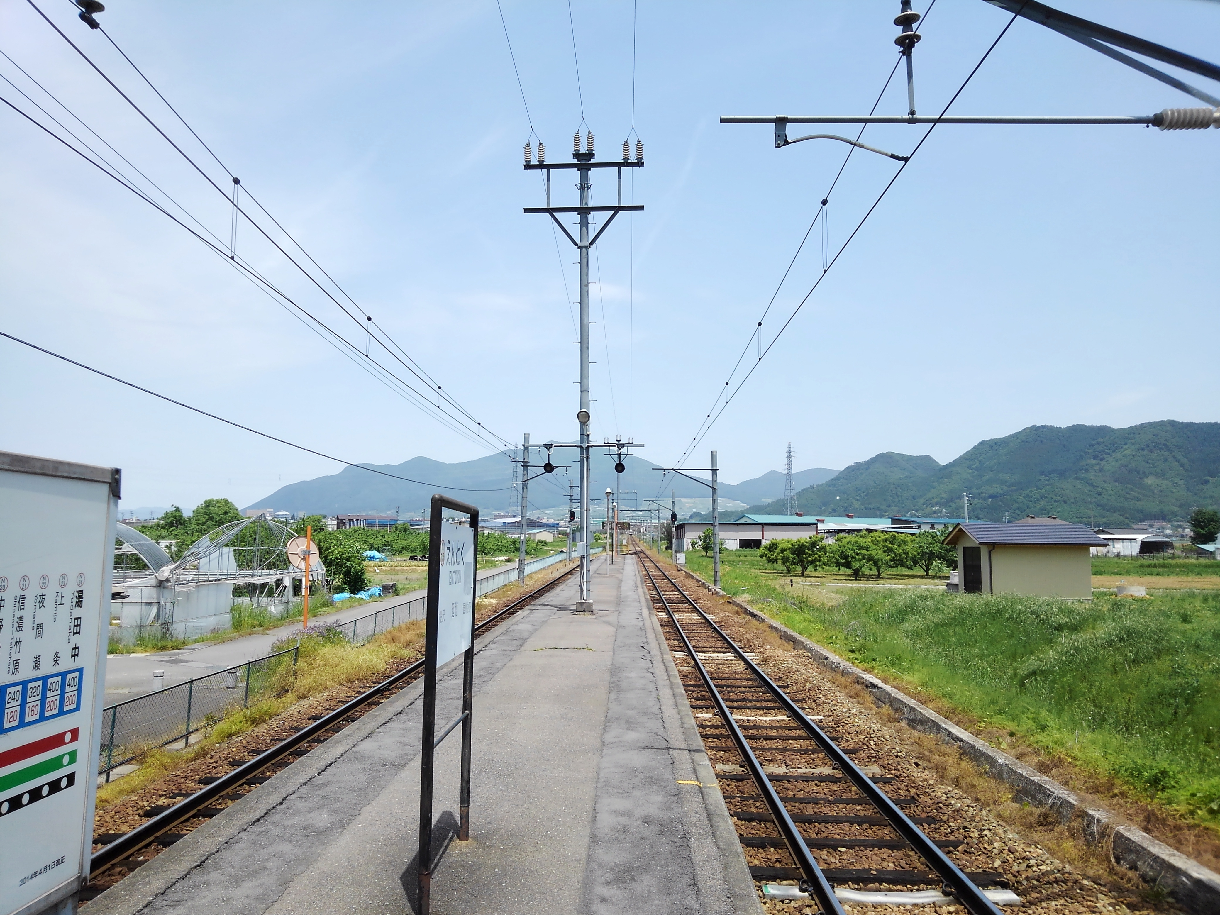 Platform of Entoku Station on Nagano Electric Railway Nagano Line, located in Nakano, Nagano, Japan. Viewed from south to north (Shinshū-Nakano side).